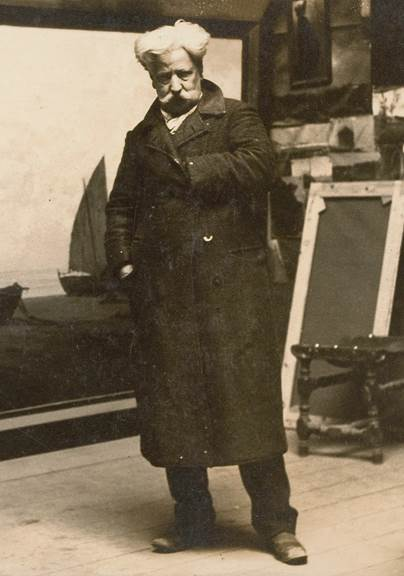 Catalonian painter, Modest Urgell (1839-1919) in his studio